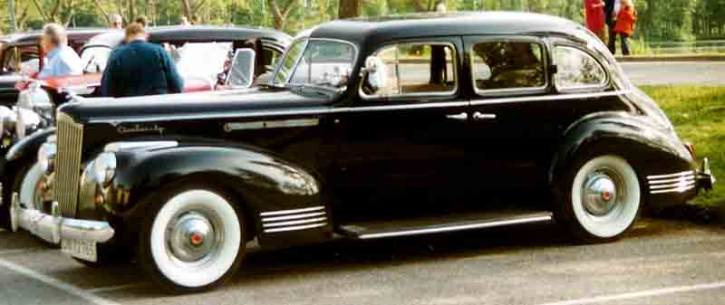 Packard Nineteenth Series (1901) 4-Door Touring Sedan One-Twenty 1941